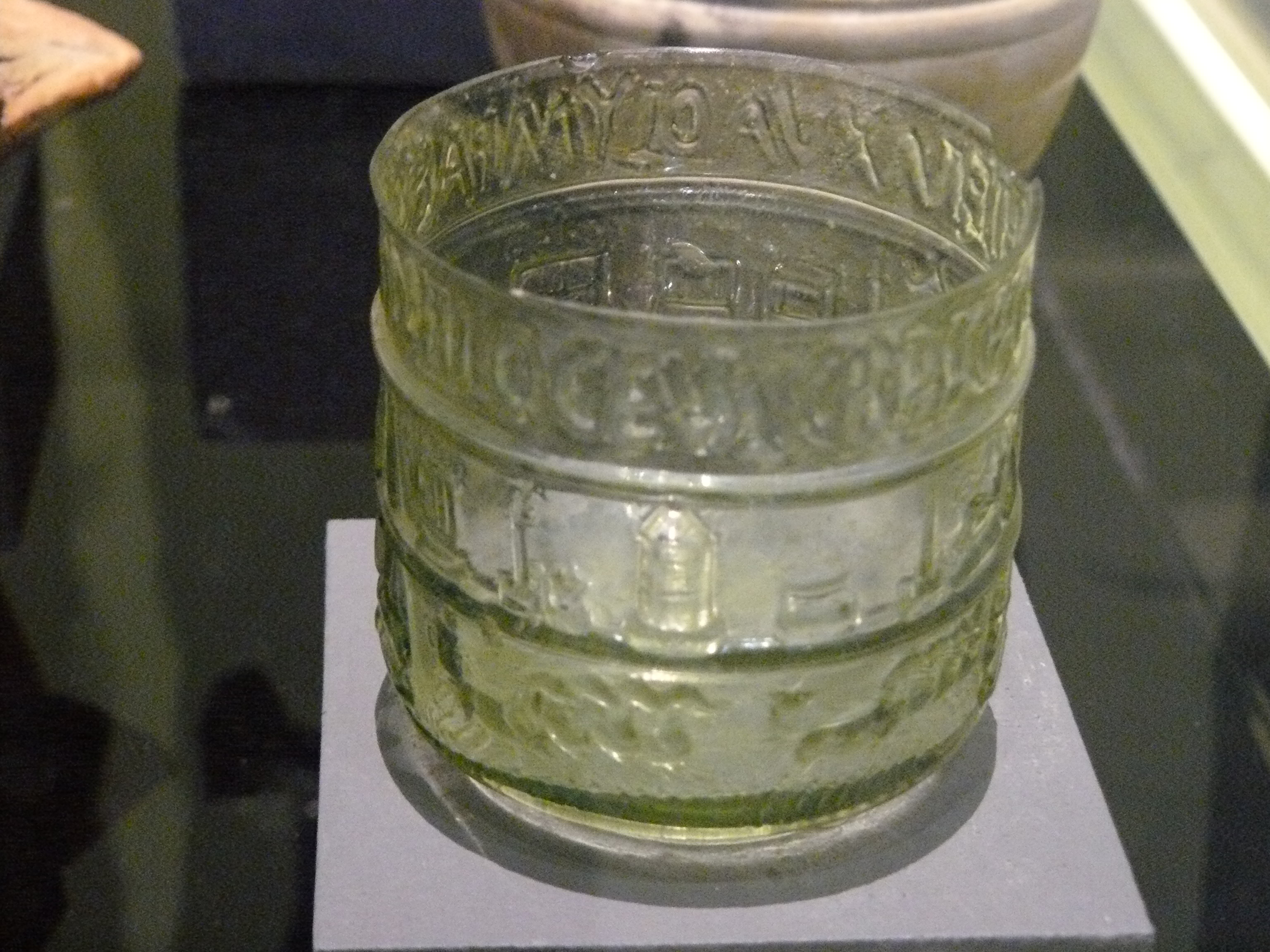 Glass vessel found in Colchester depicting chariot racing